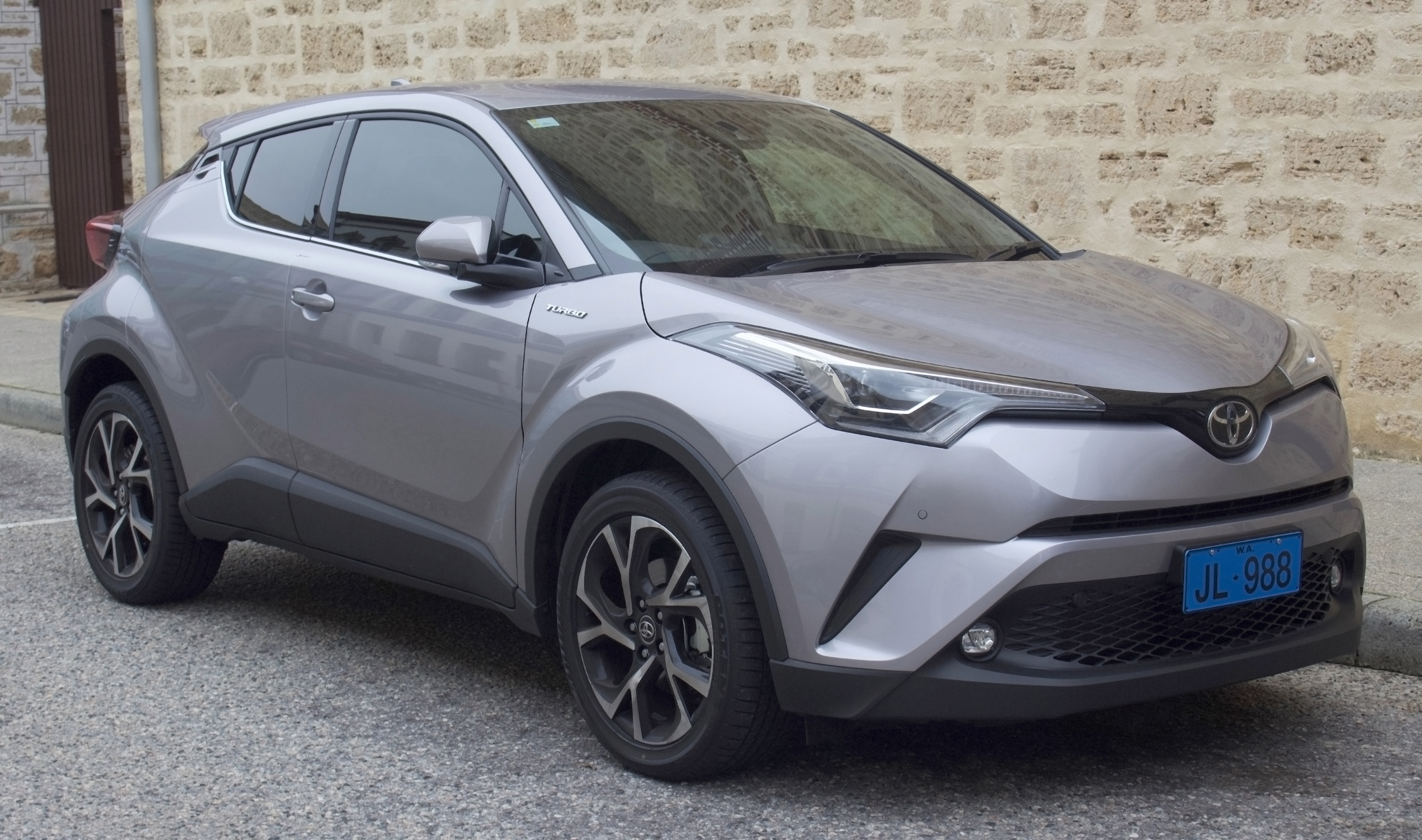 2017 Toyota C-HR (NGX10R) Koba 2WD hatchback. Photographed in Fremantle, Western Australia, Australia.